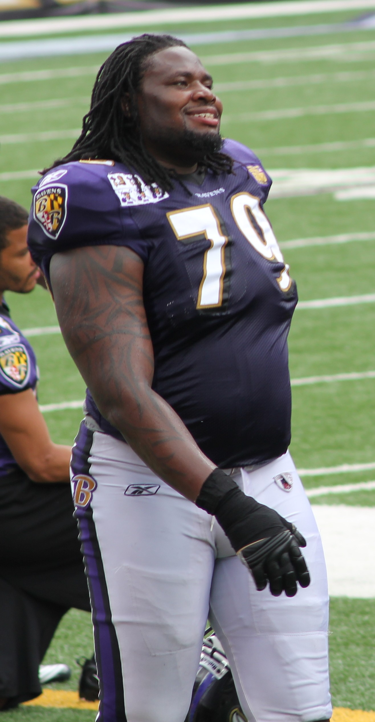 Oniel Cousins Practice at M&T Bank Stadium August 2011